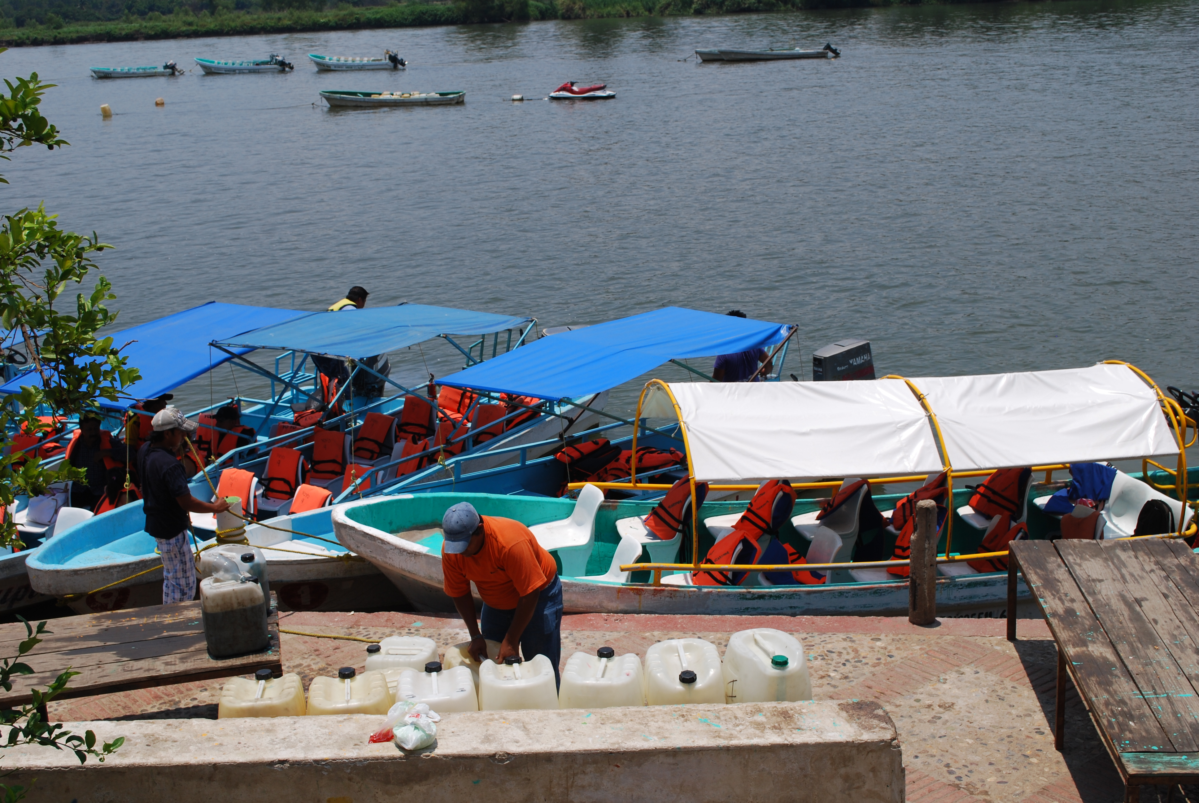 Man with gas containers by boats docked at Chiapa de Corzo, Chiapas, Mexico